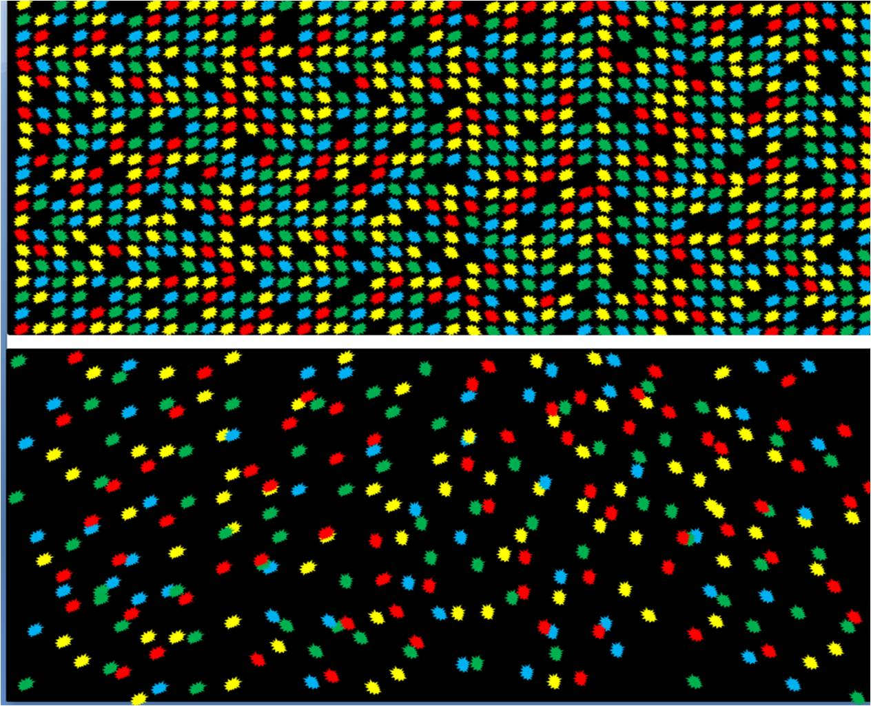 High density of reads on a flow cell using DNA nanoball sequencing